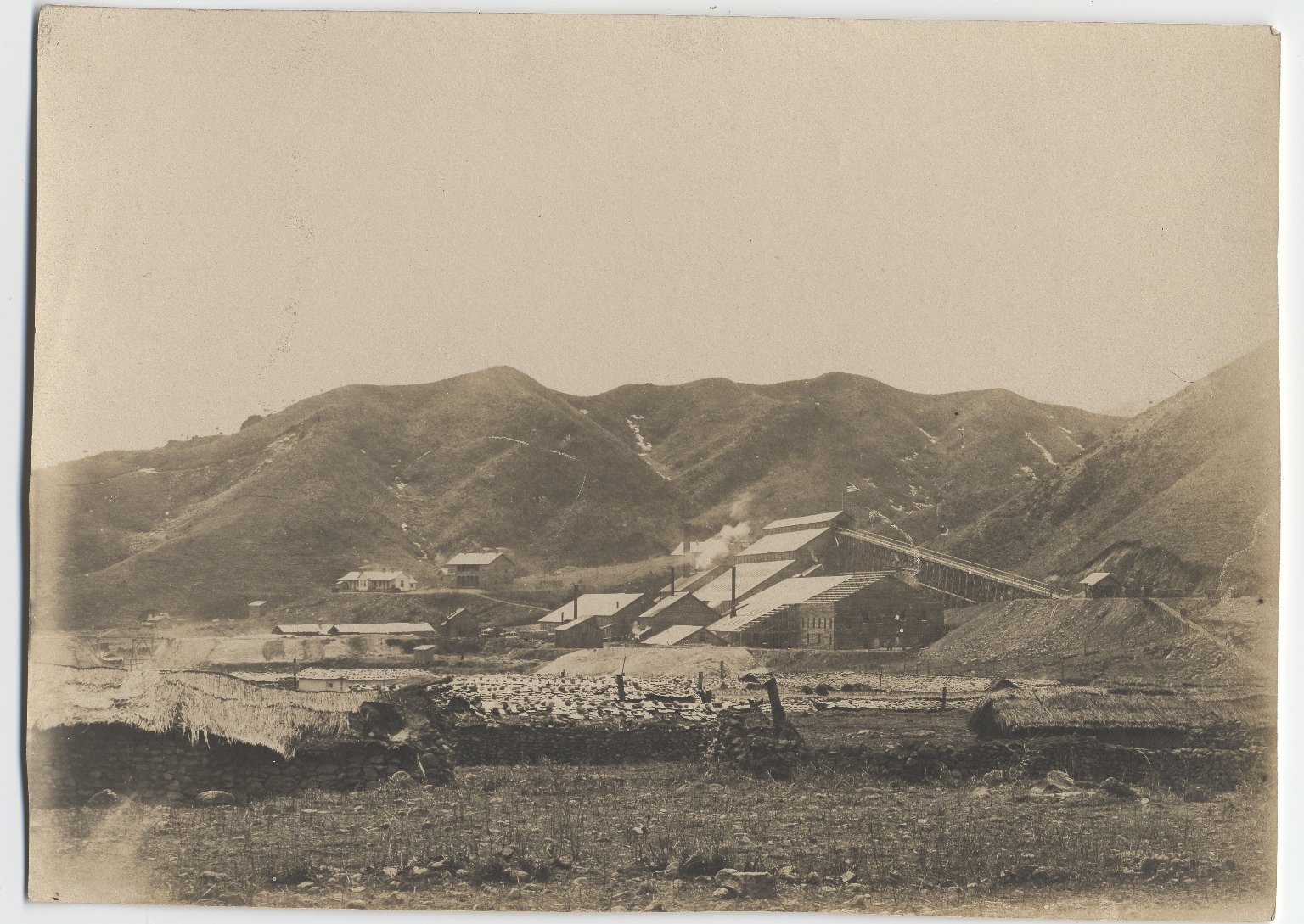 Collection: Willard Dickerman Straight and Early U.S.-Korea Diplomatic Relations, Cornell University Library Title: Taracol camp Date: ca. 1908 Place: Asia: North Korea; Unsan Type: Photographs Description: Americans Leigh S.J. Hunt and J. Sloat Fasset formed Oriental Consolidated Mining Company and bought Korean Mining and Development Company in May 18, 1898. The Oriental Consolidated Mining Company owned 10 gold pits in Unsan, Pyongan-pukto. Taracol was one of the pits in Unsan Gold Mine. Unsan previously was a small village with only a few households, but it evolved into a very different place through the mining business association with the American entrepreneurs. Between 1903 and 1938 the annual profit from the gold mining reached more than $12,000,000, but the backward Korean Royal government sold the Korean Mining and Development Company for only $100, 000. Had the Korean government not sold the mining owning right for a lump-sum payment, it could have achieved a price as high as $3,000,000. The mining by the Americans continued until they were forced to relinquish operations to the Japanese in 1939 Source: Yi, Pae-yong. Ku Hanmal kwangsan ikwon kwa yolgang, 1984. Hapter 2. Inscription/Marks: Inscribed in pencil on verso: 'Taracol camp.' Identifier: 1260.63.38.11 Persistent URI: There are no known U.S. copyright restrictions on this image. The digital file is owned by the Cornell University Library which is making it freely available with the request that, when possible, the Library be credited as its source. We had some help with the geocoding from Web Services by Yahoo!